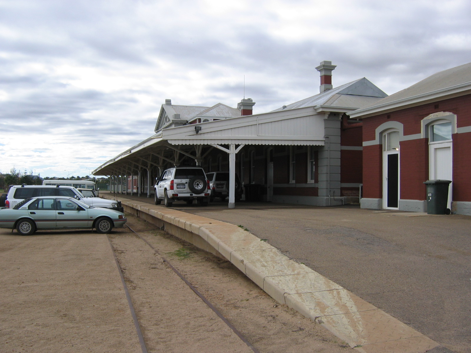 Geraldton Railway Station from the rail side.